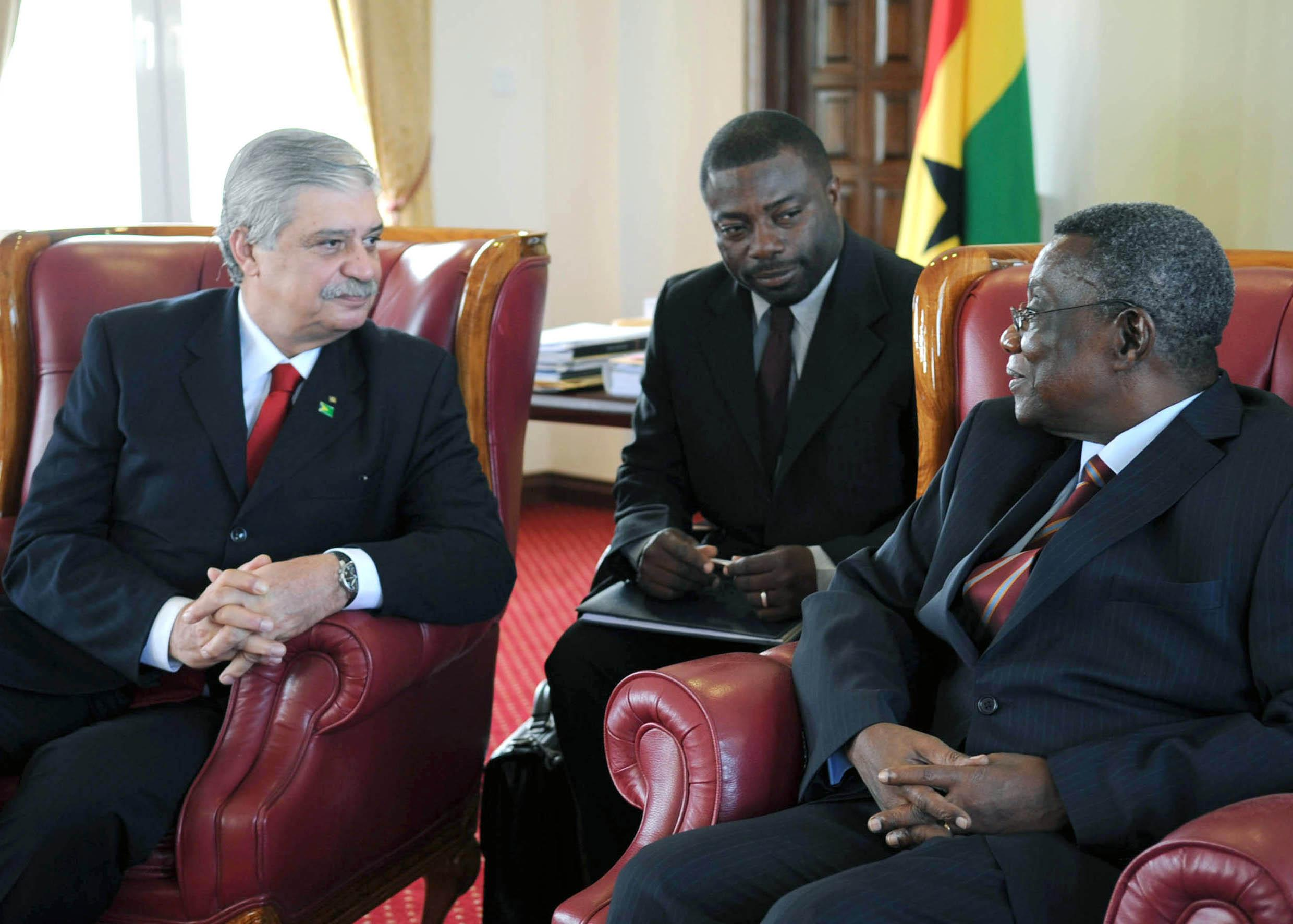 President John Atta Mills of Ghana meets the Minister of Development of Brazil, Miguel Jorge, in Accra.